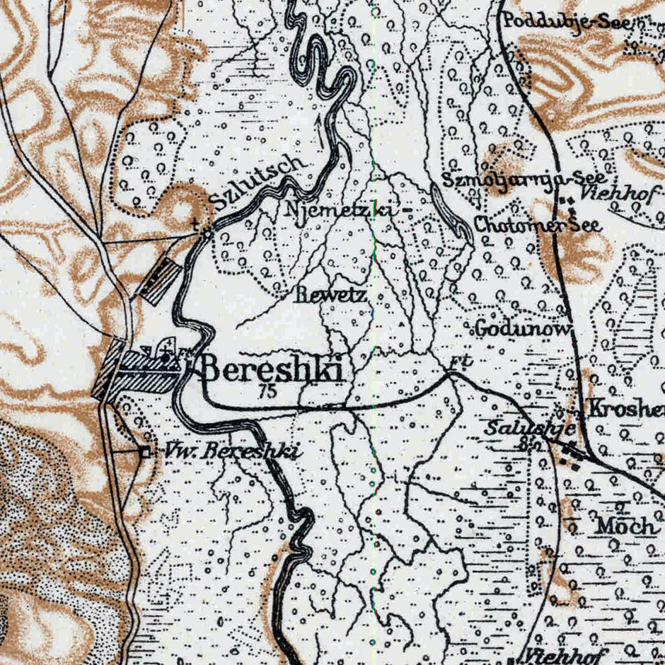 Berezhky on the map "Karte des Westlichen Russlands", T 35, 1917. According to Digital Repository of Scientific Institutes and Kujawsko-Pomorska Digital Library the map is in the public domain.